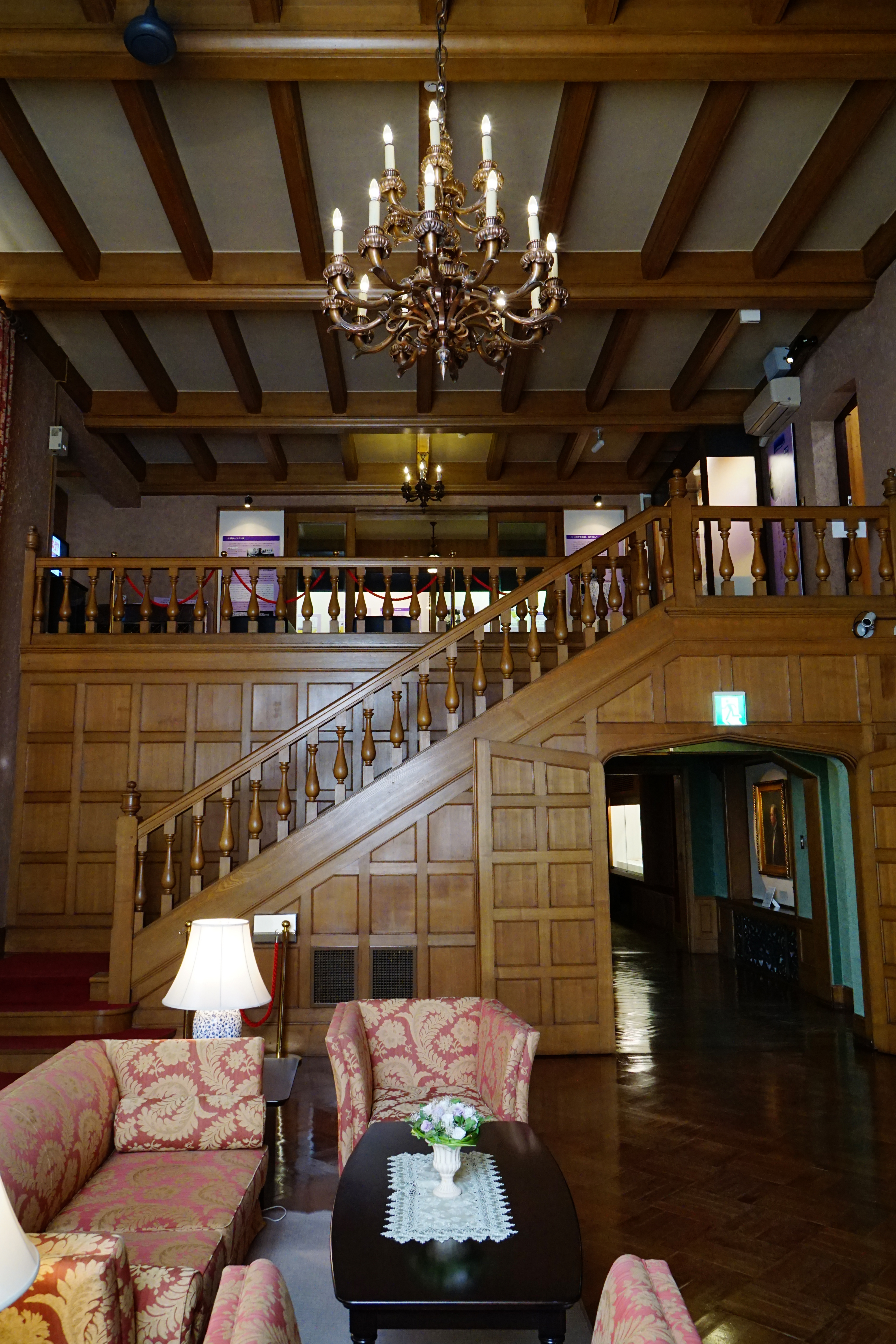 Itsuo Art Museum in Ikeda, Osaka prefecture, Japan.